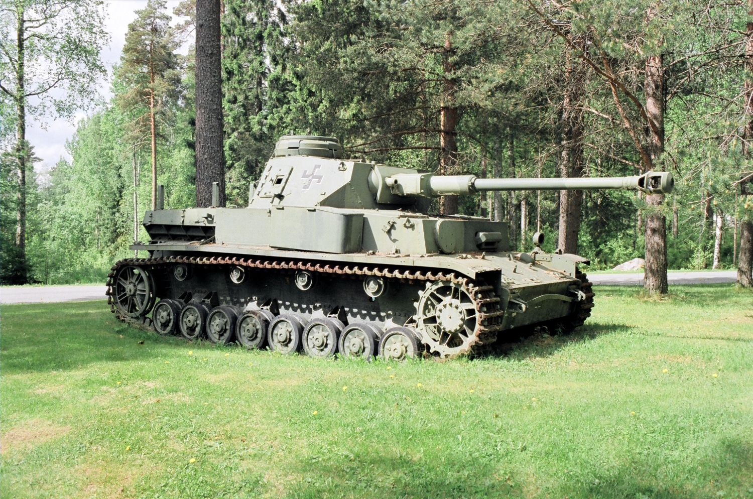 A Panzer IV tank version J in the Karkialampi barracks area in Mikkeli, Finland.